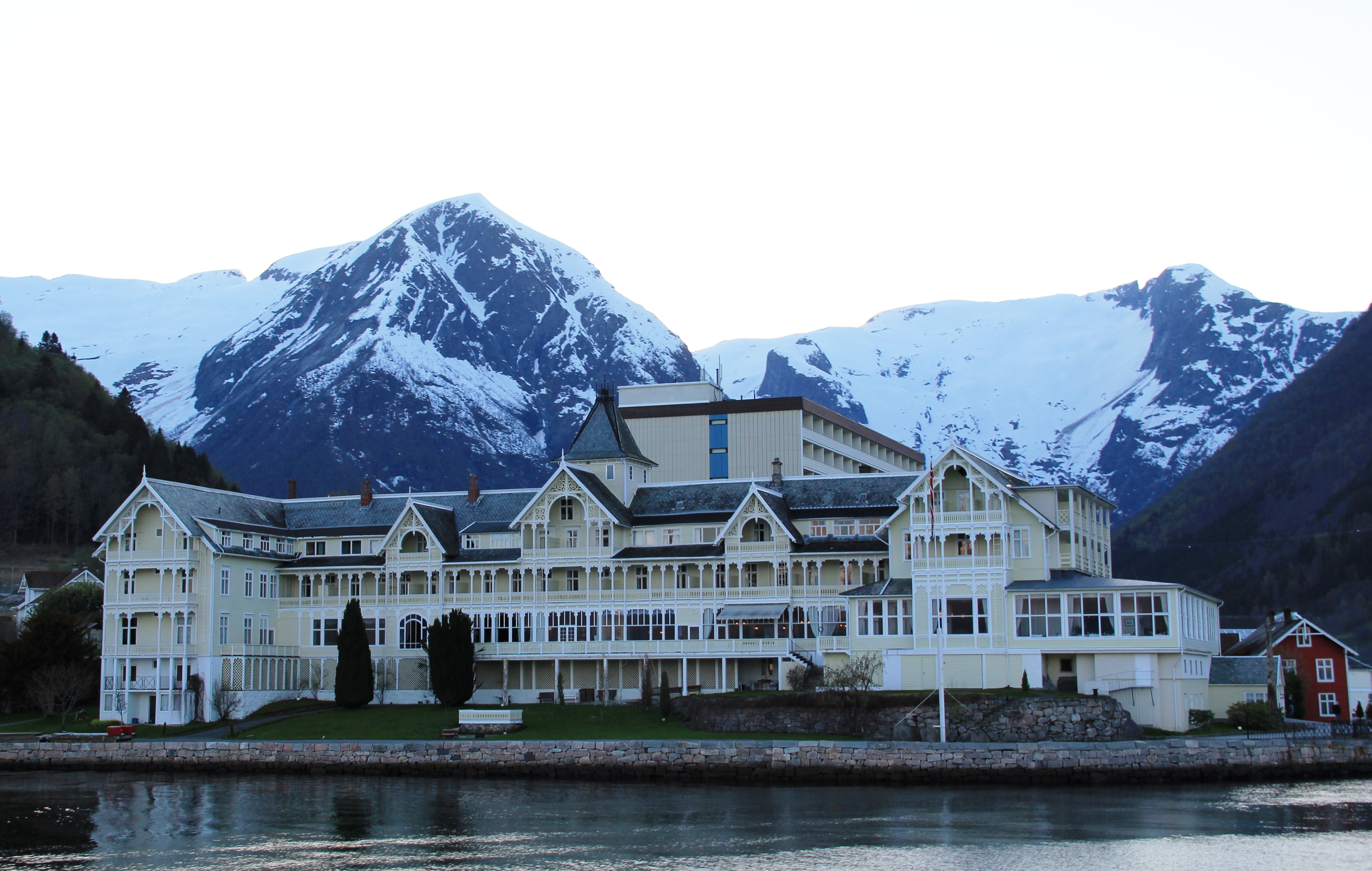 Kviknes hotell, in Balestrand Norway.